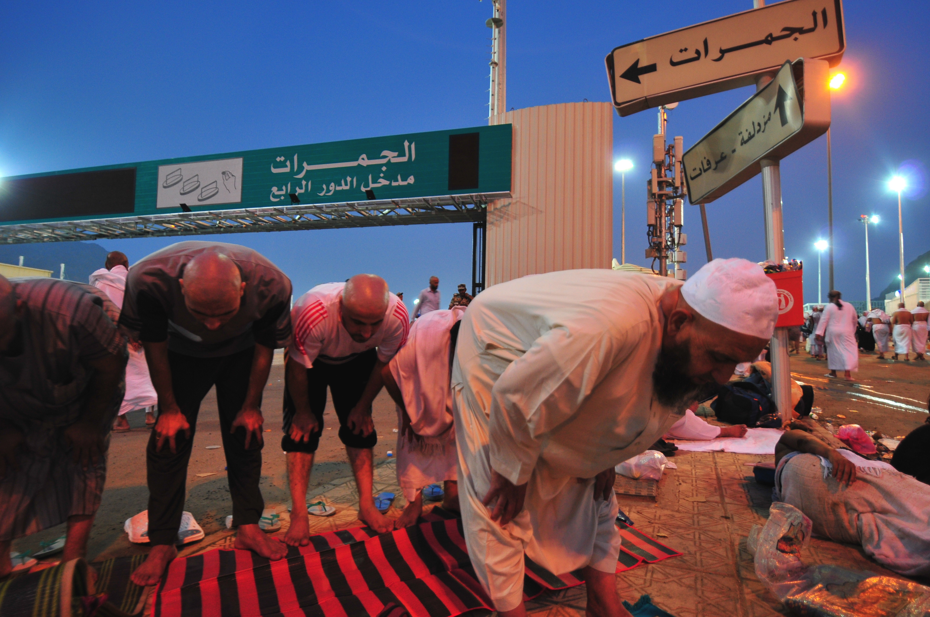 Praying Pilgrims